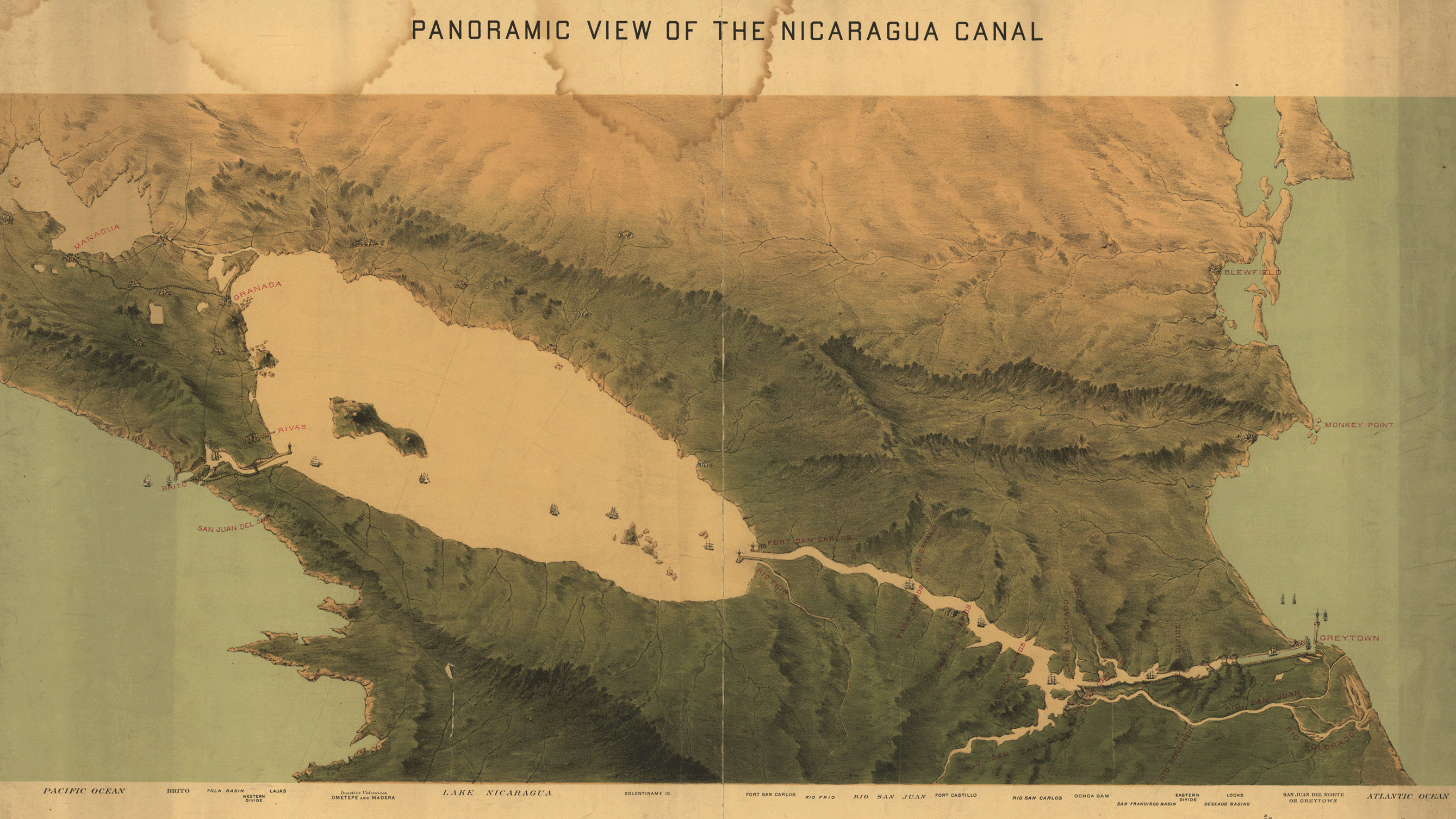 A c.1870 map of the proposed route of the Nicaragua Canal. Created by Julius Bien and Company, it is titled Panoramic View of the Nicaragua Canal